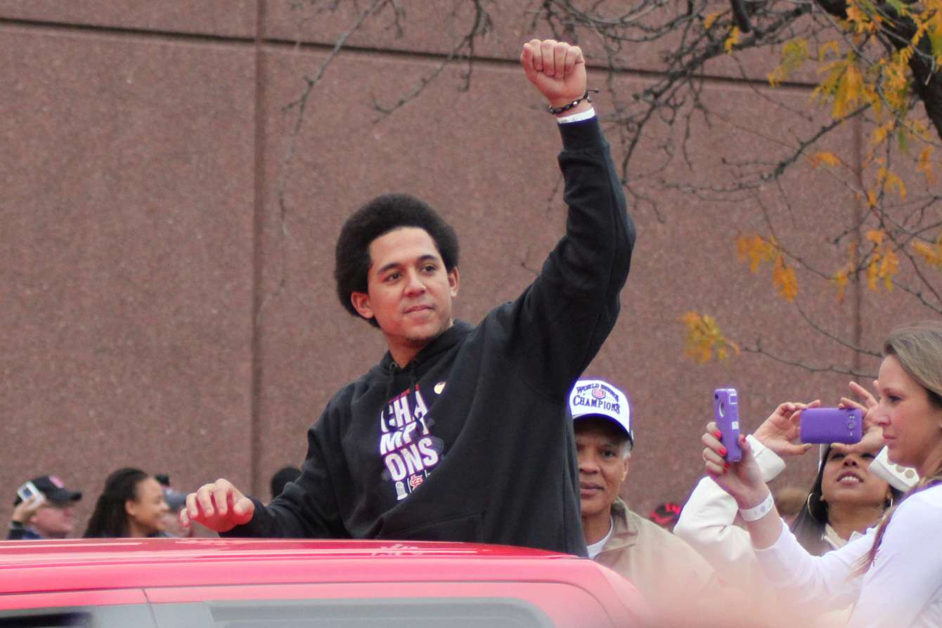 Jon Jay during the 2011 World Series victory parade Saint Louis Oct 30, 2011.